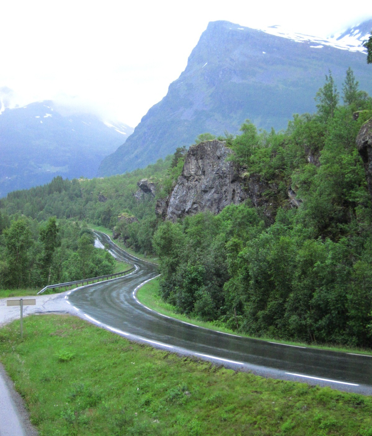 Road 63 at "Knuten"/Ørjasæter in Geiranger